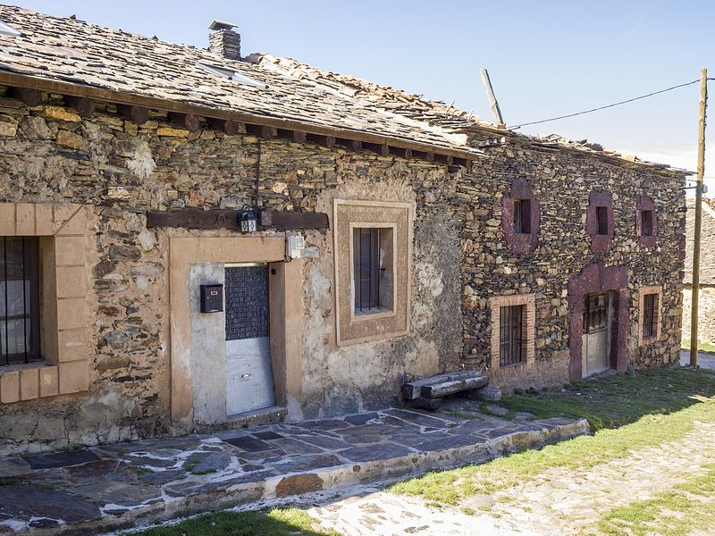 Serracín. Pueblo de la Ruta de los pueblos rojos, negros y amarillos de la provincia de Segovia.